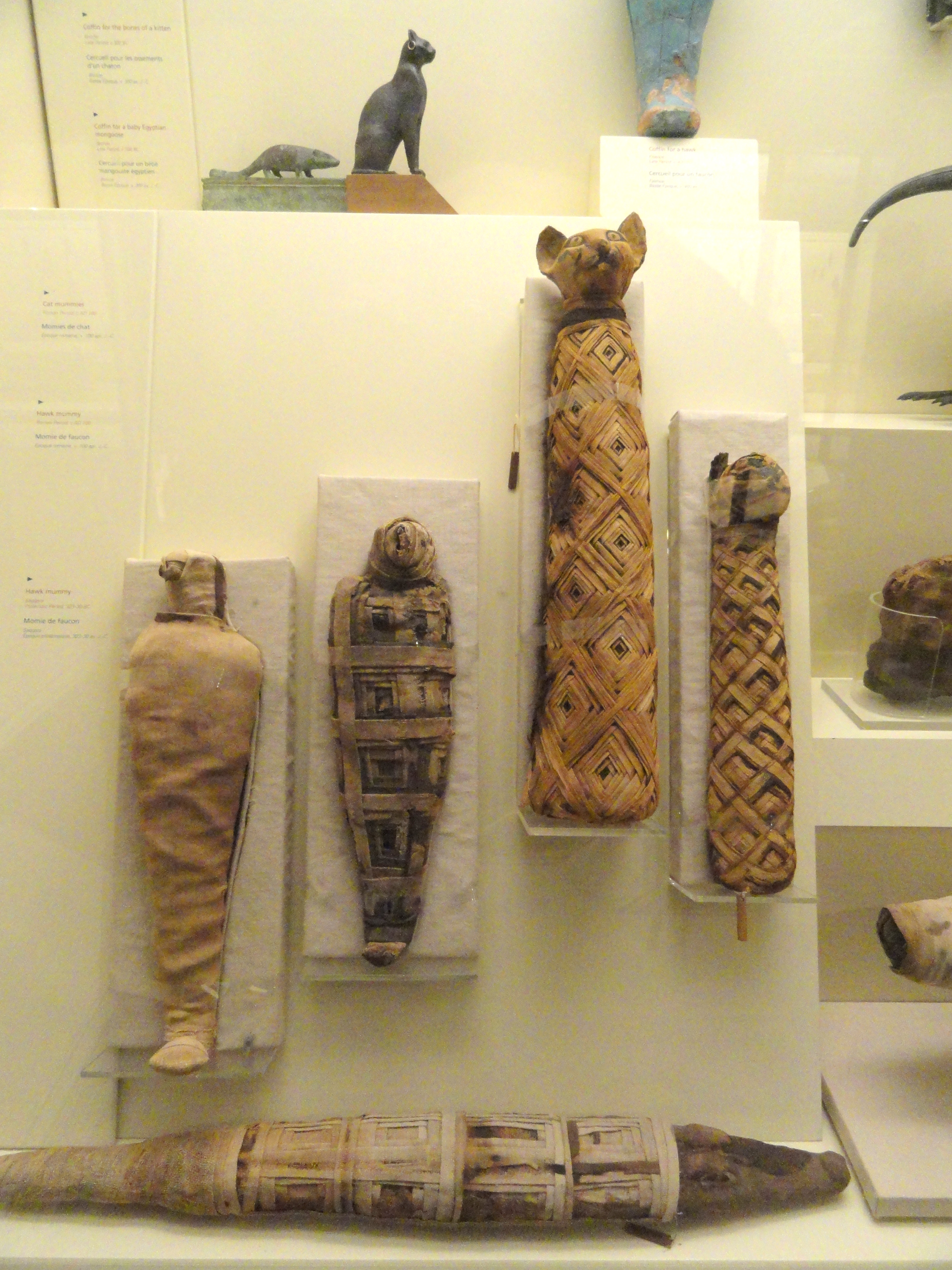 Exhibit in the Royal Ontario Museum, Toronto, Ontario, Canada. This exhibit is old enough so that it is in the public domain, and photography was permitted in the museum. I took this photograph and release it into the public domain.